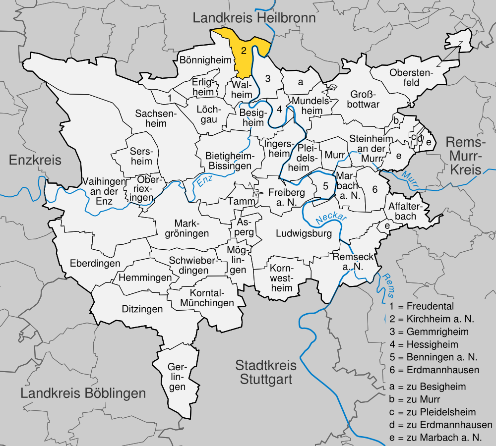 position of Kirchheim within distict of Ludwigsburg, Baden-Württemberg, Germany